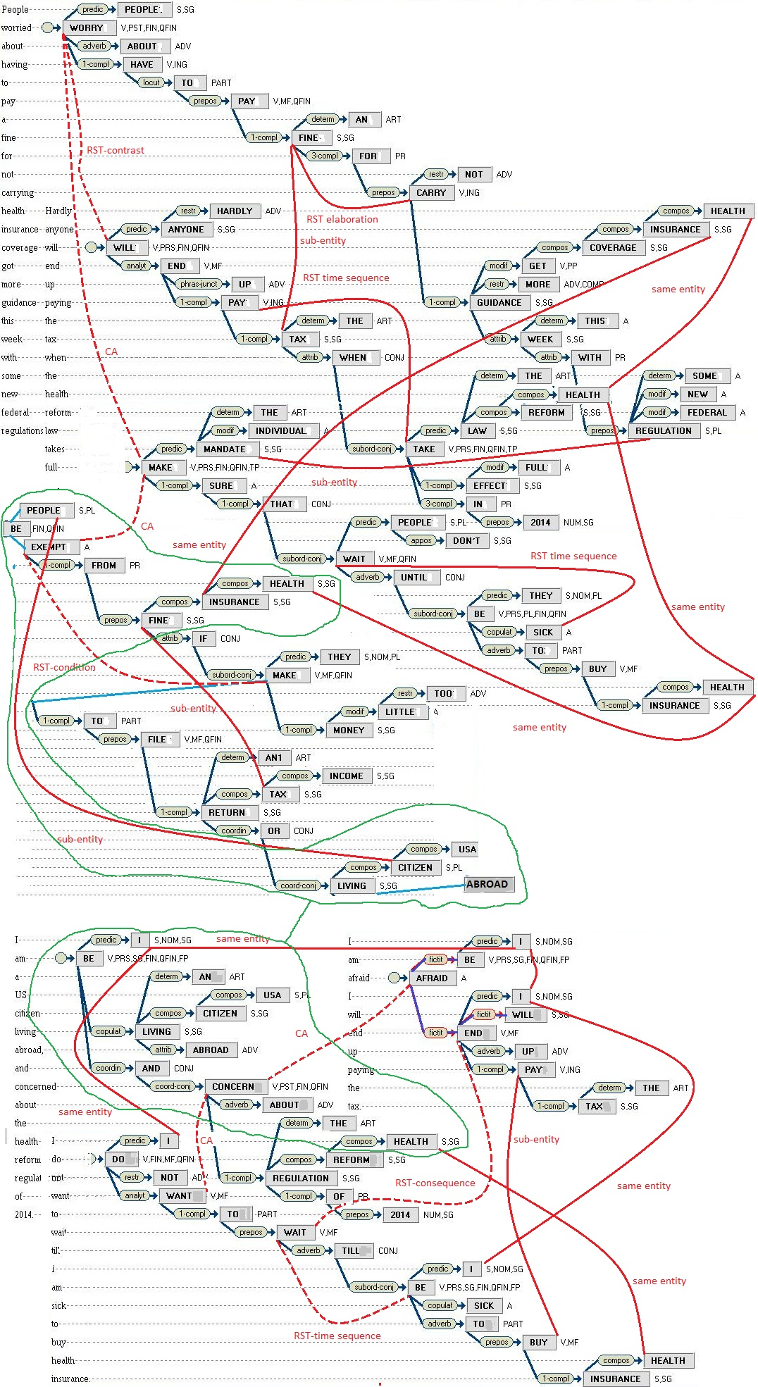 Finding maximum common sub parse thicket